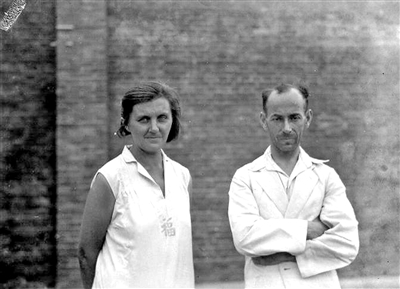 Jakob Rudnik and his wife